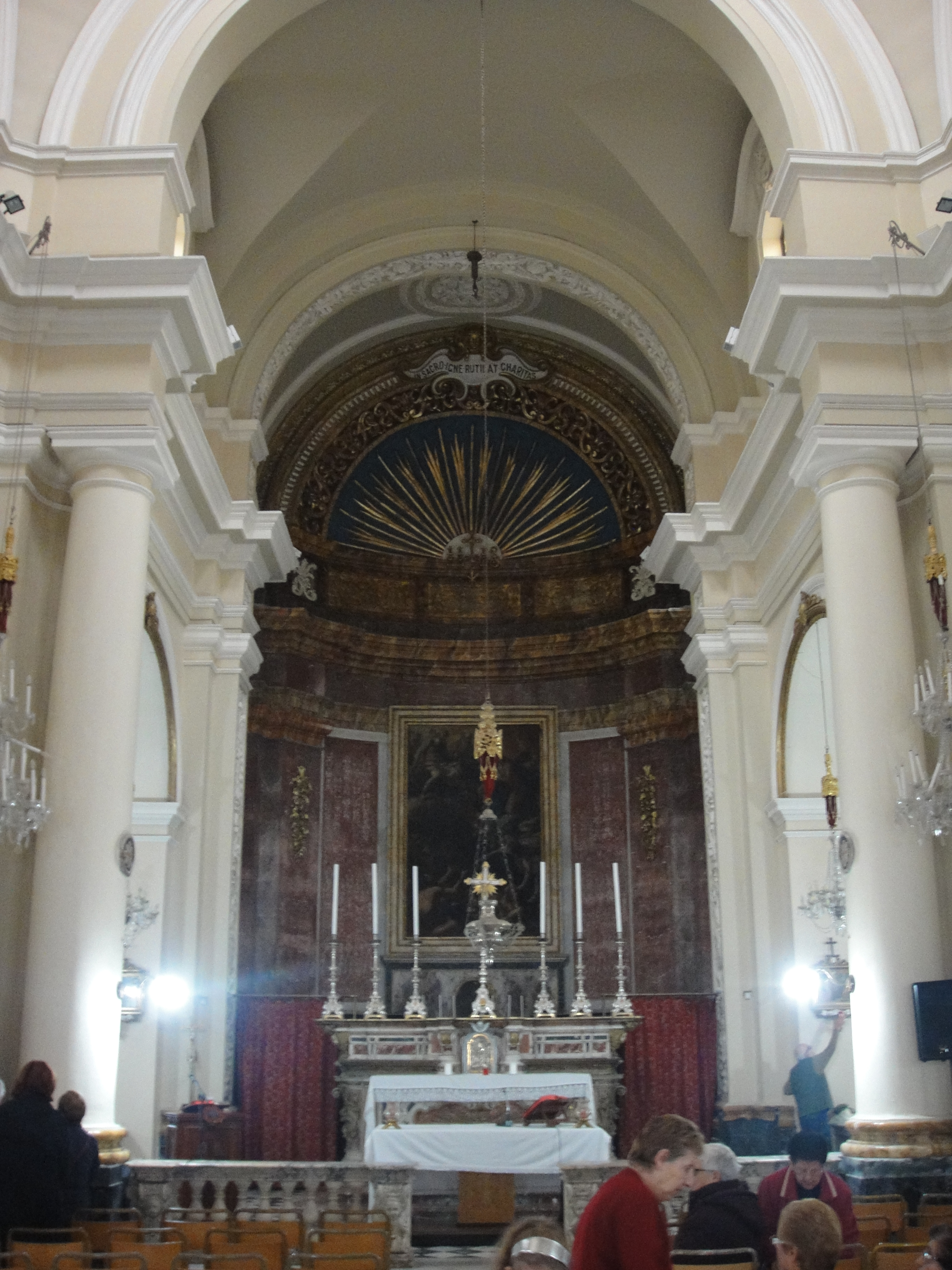 Interior of the church of St Nicholas in Valletta, Malta.